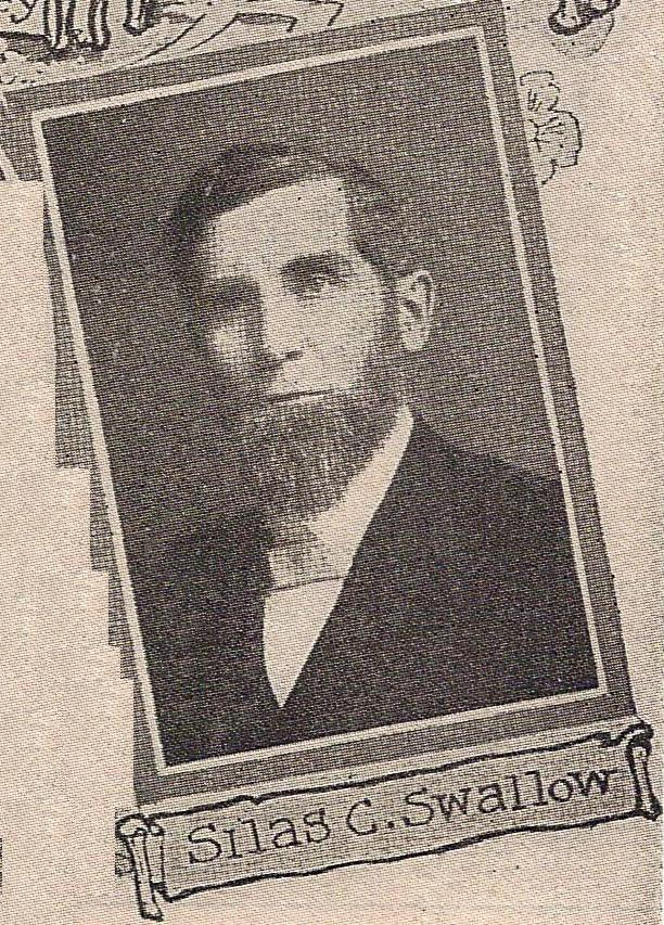 Silas C. Swallow, image